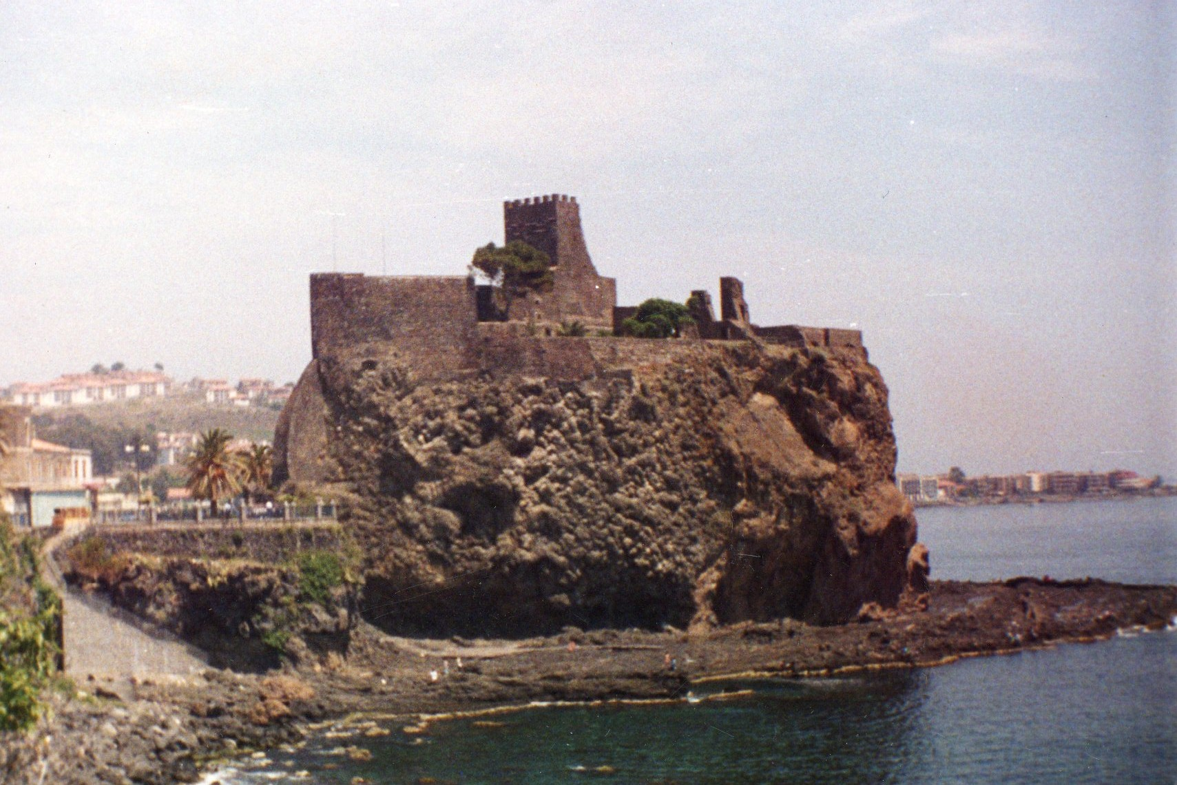 A panoramic photo of Aci Castello, 1990